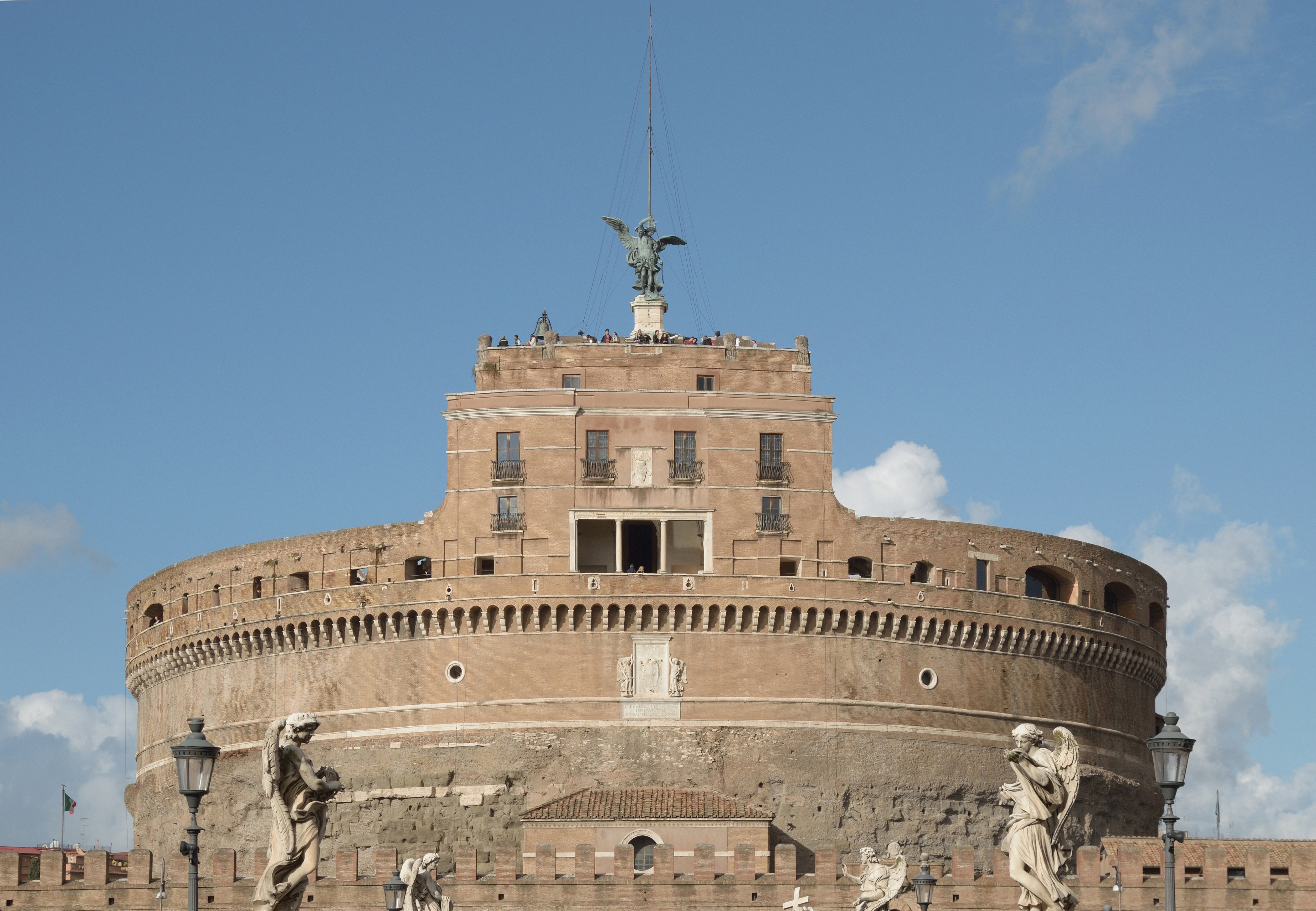 Castle of the Holy Angel (Mausoleum of Hadrian)